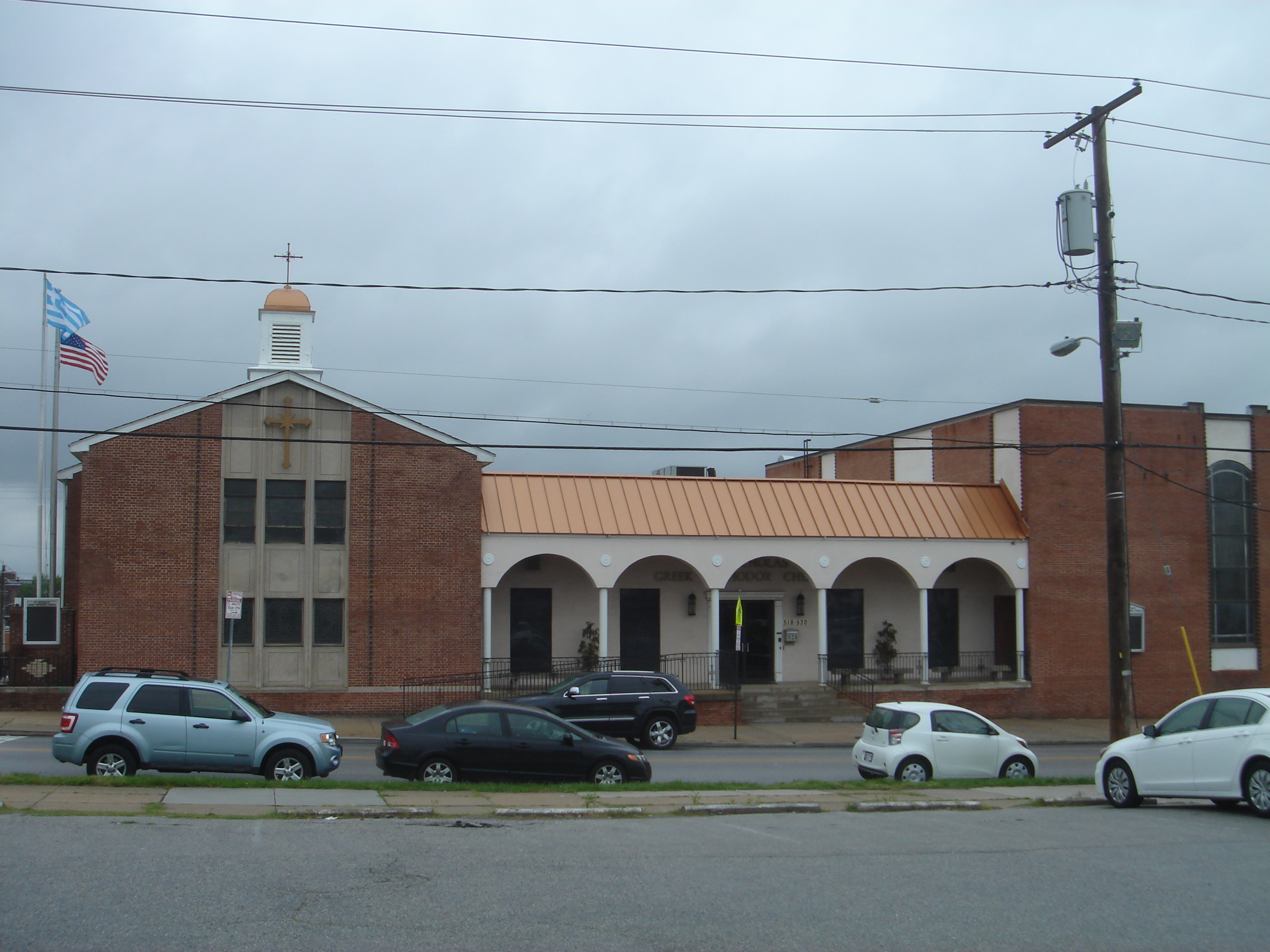 St. Nicholas Greek Orthodox Church in Greektown, Baltimore, Maryland.